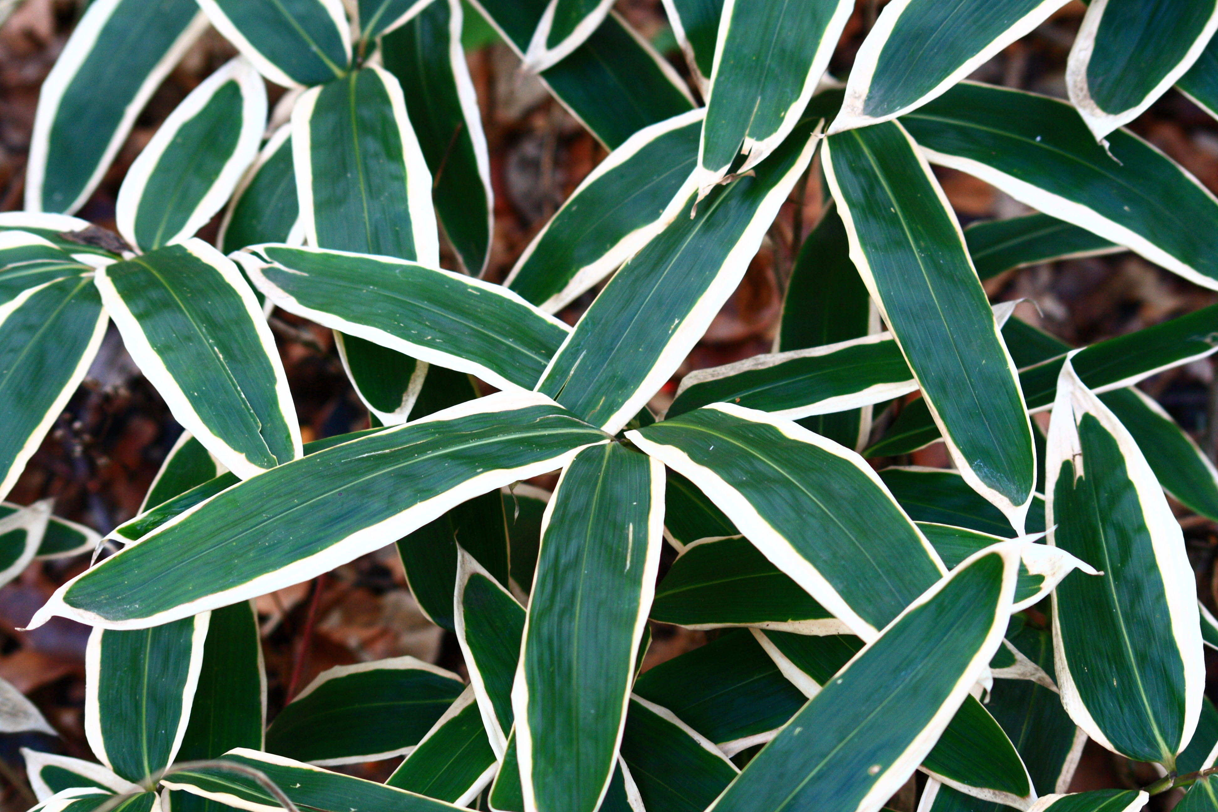 Sasa veitchii bamboo in a yard in Farmington, Connecticut. The leaves appear variegated as edges die back during the fall.